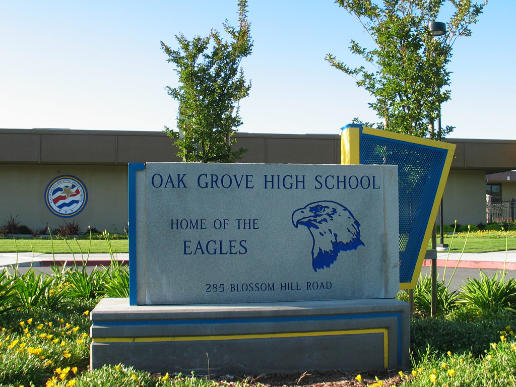 Oak Grove High School billboard. Photograph taken by Bahn Mi of the Schoolwatch Programme and released freely under the Creative Commons Attribution ShareAlike 2.0 license.